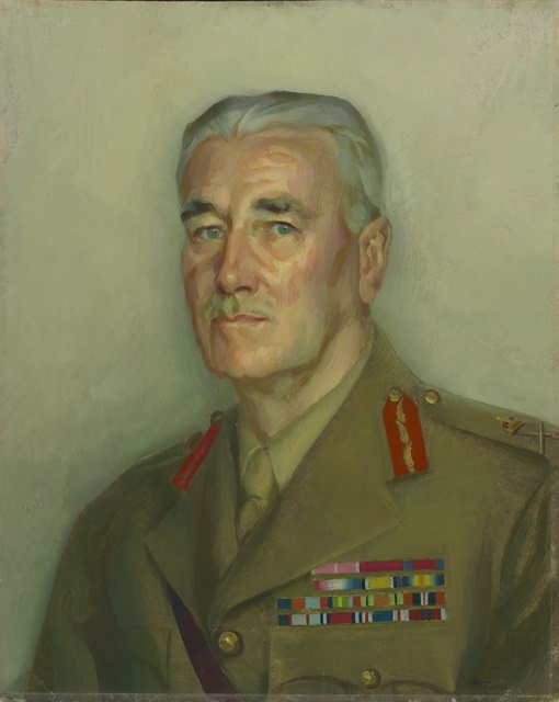 Portrait of Lieutenant General Sir Vernon Ashton Sturdee, KBE, CB, CBE, DSO, Chief of Australian General Staff 1946-50 (retired).